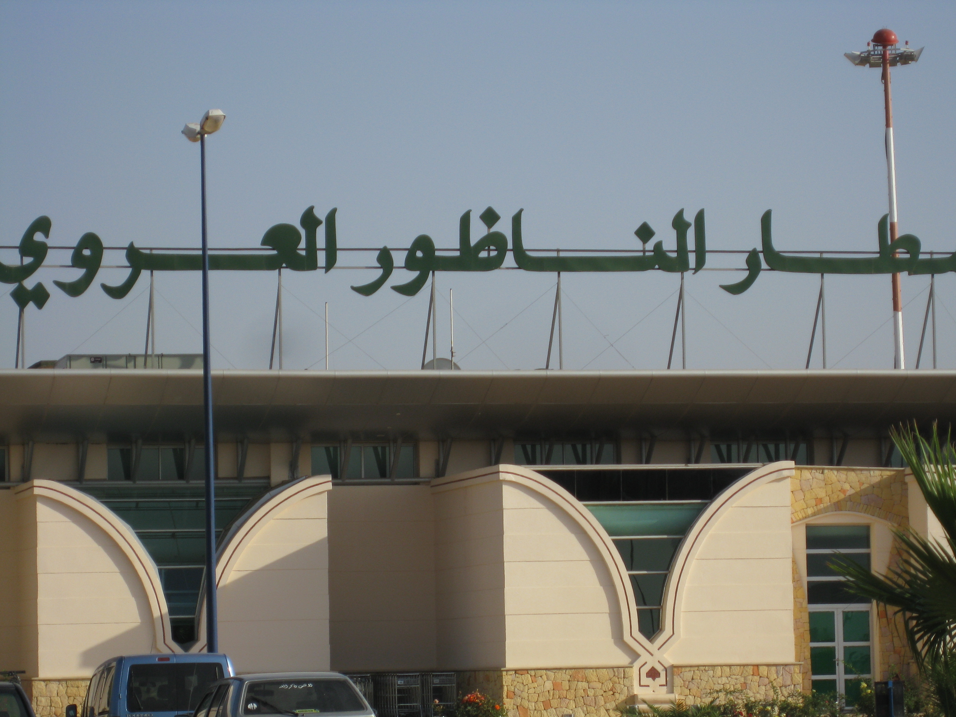 Name of the International airport of Nador (Morocco) in Arabic.